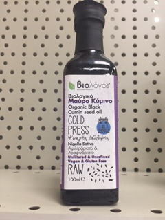 Nigella sativa oil (manufactured in Greece).